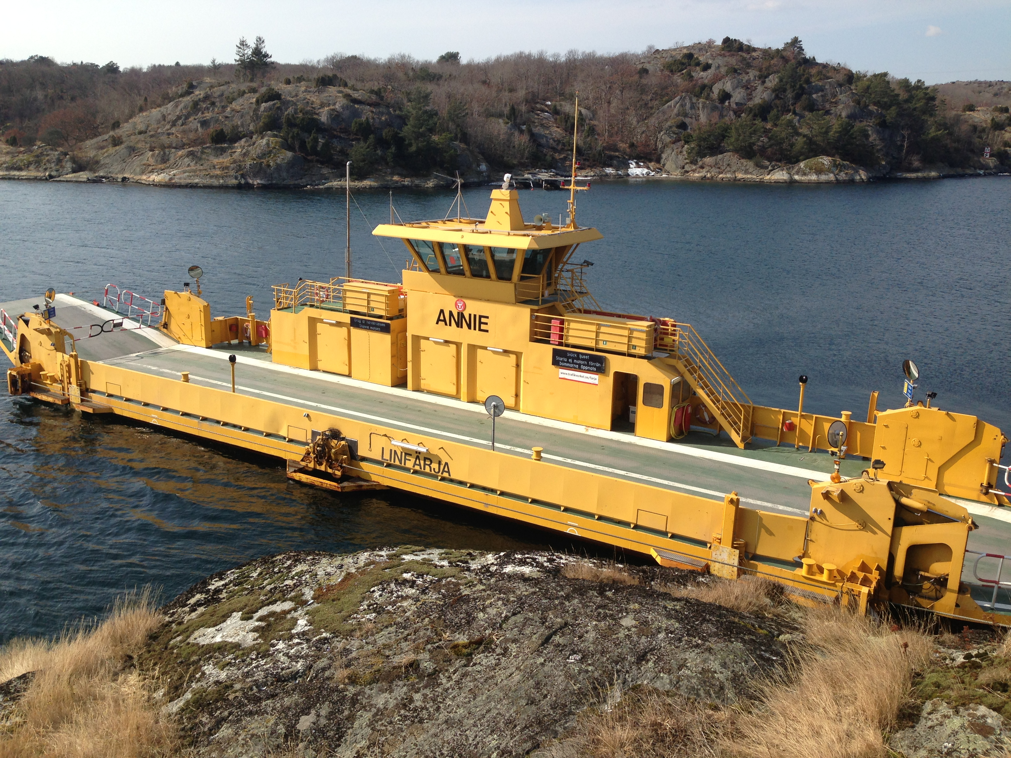 The ferry Annie 2013